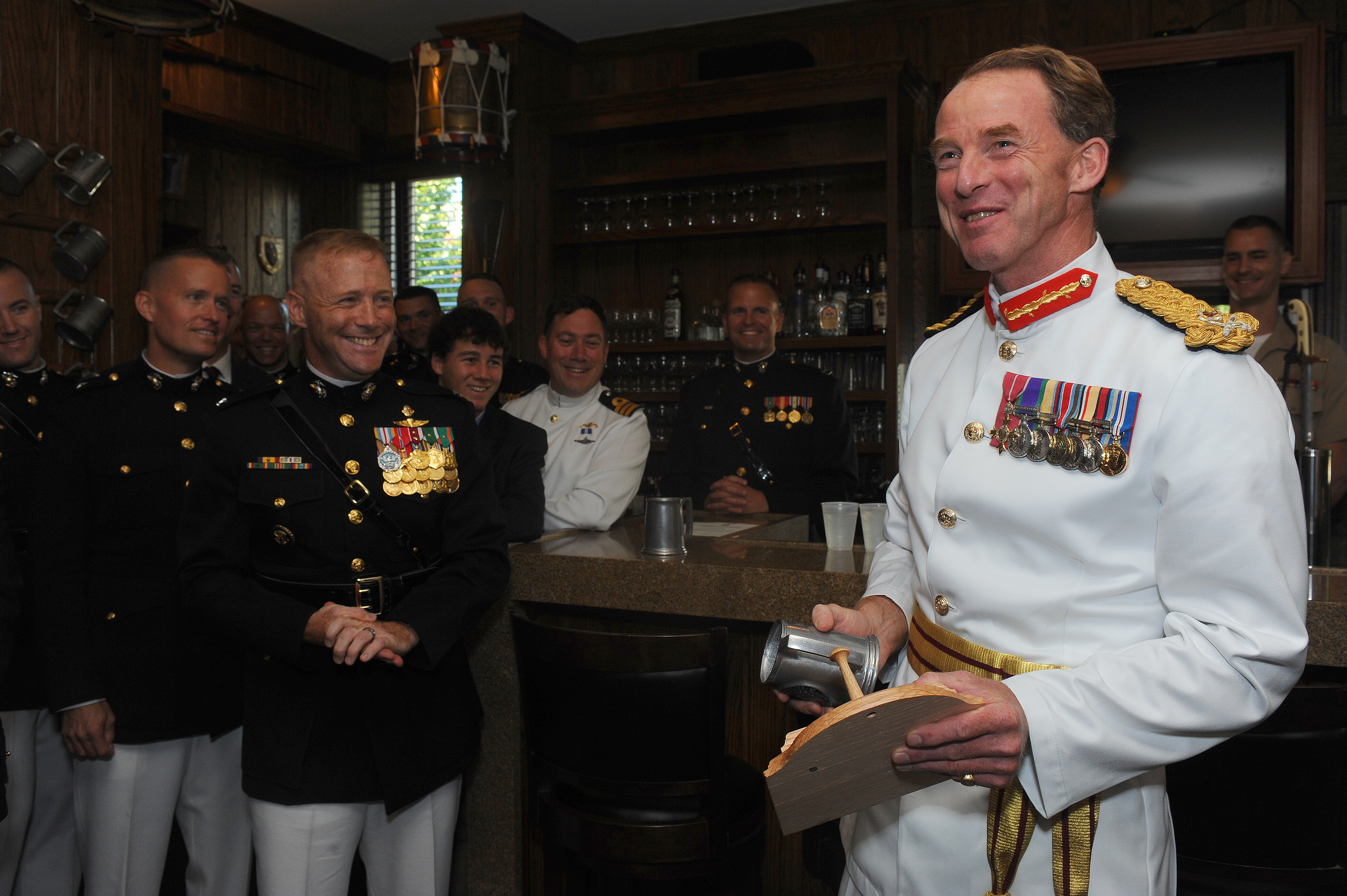 Commandant general of the British Royal Marines, Maj. Gen. Buster Howes, smiles after making remarks of the clever use by historic British Army of a pewter mug to recruit soldiers after being presented with the gift inside of the Drum Room of Centerhouse at Marine Barracks Washington July 27, 2011.